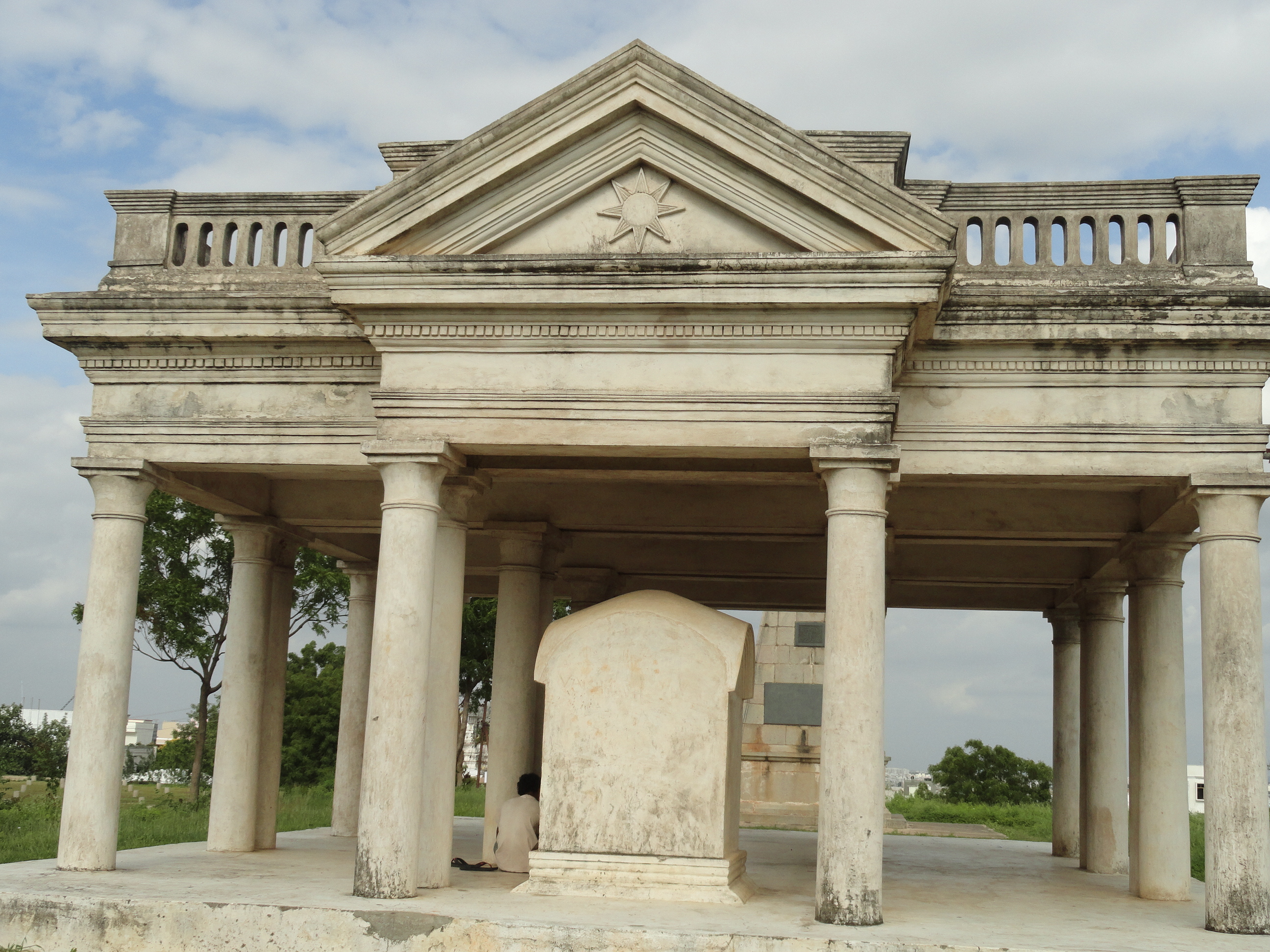 it is a main structure called monds raimonds oblisk at malakapet, hyderabad, India , andhrapradesh